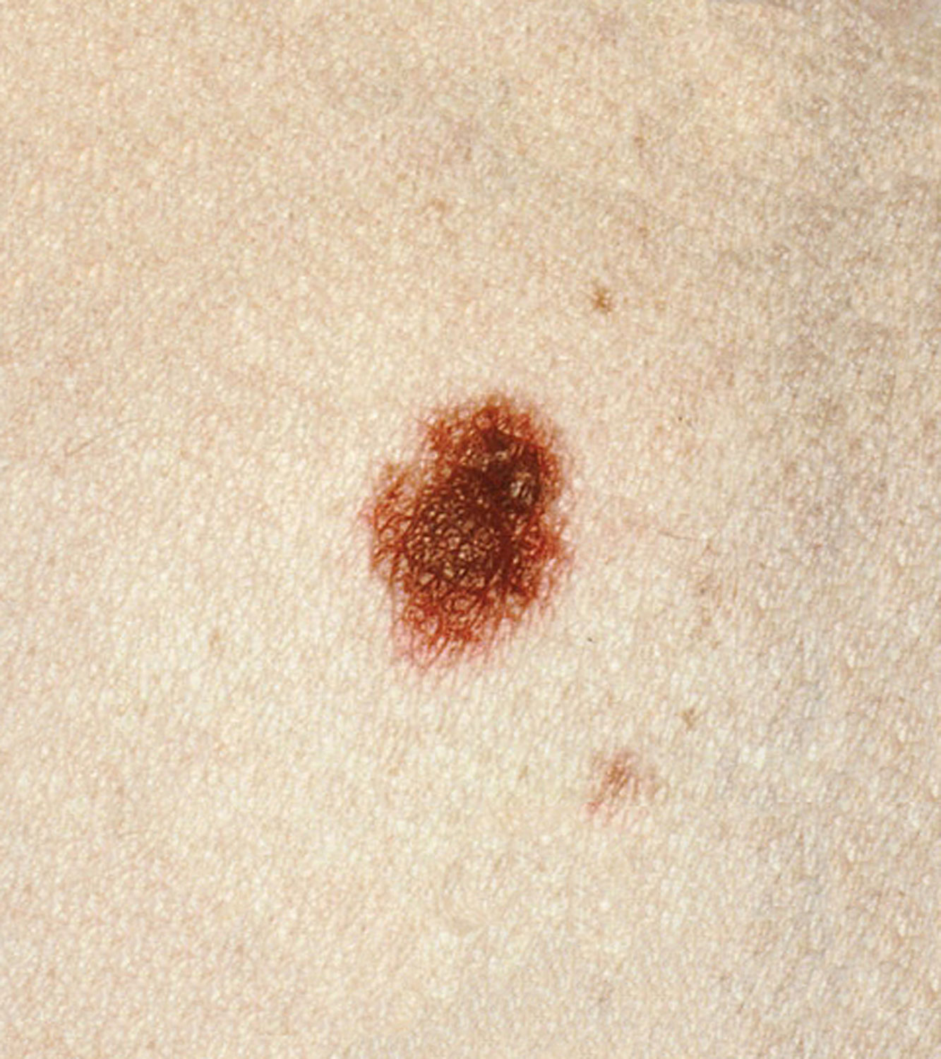 Title Dysplastic Nevi Description The central portion of this mole is a complex papule. The periphery of the lesion is macular, irregular, indistinct and slightly pink. For additional resource, see the following web site: Topics/Categories Anatomy -- Skin Cancer Types -- Skin Cancer Cells or Tissue -- Abnormal Cells or Tissue Type Color, Photo Source National Cancer Institute